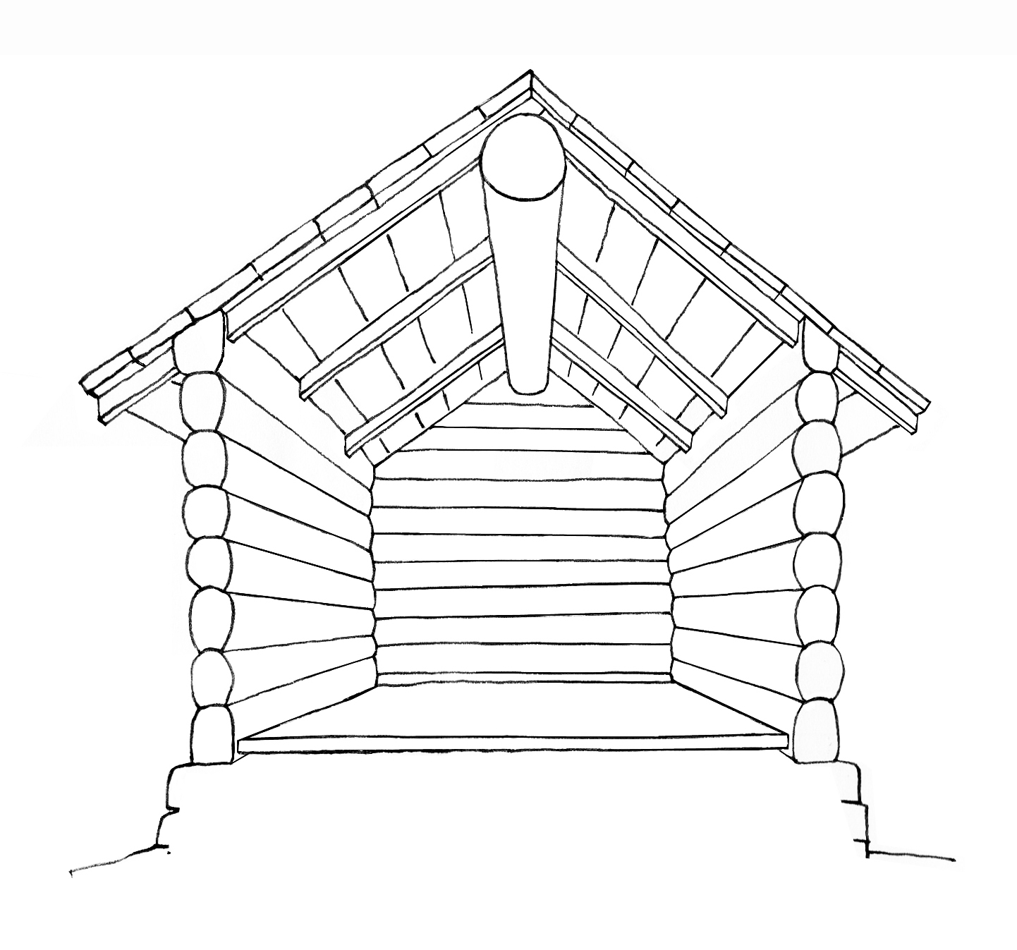 Section of a log house with rafter roof supported by a ridge purlin